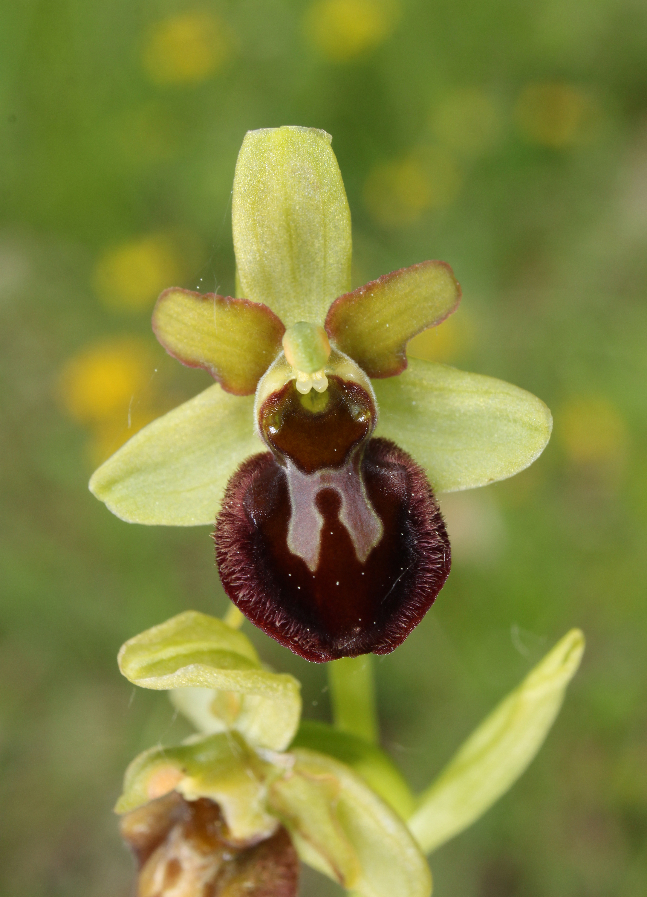 Early Spider Orchid, Ophrys sphegodes, Family: Orchidaceae, Location: Germany, Blaubeuren, Pappelau. Rare species therefore only area geotagging.